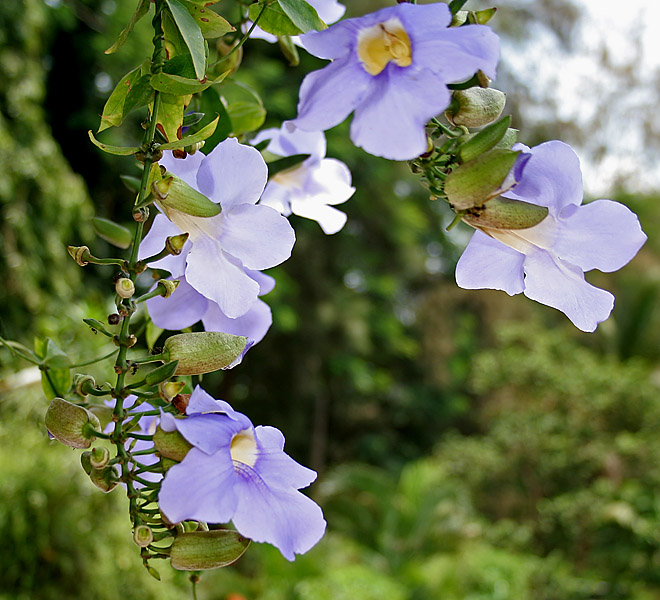 Thunbergia laurifolia (Synonyms: Thunbergia grandiflora var. laurifolia, Thunbergia harrisii)- Laurel Clock Vine, laurel-leaved clockvine, laurel-leaved thunbergia, purple allamanda- in Goa, India.